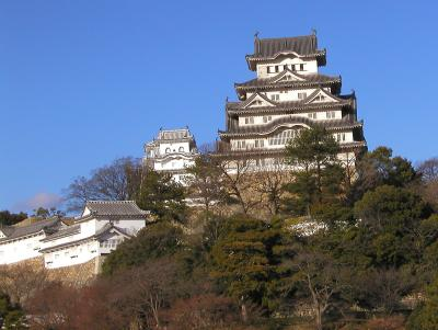 ja:??:Himeji castle frontview.jpg Himeji castle frontview Date: 2002-01-03 Place: Taken near the main entrance Copyright: Copyright-free Photographer: synthetik